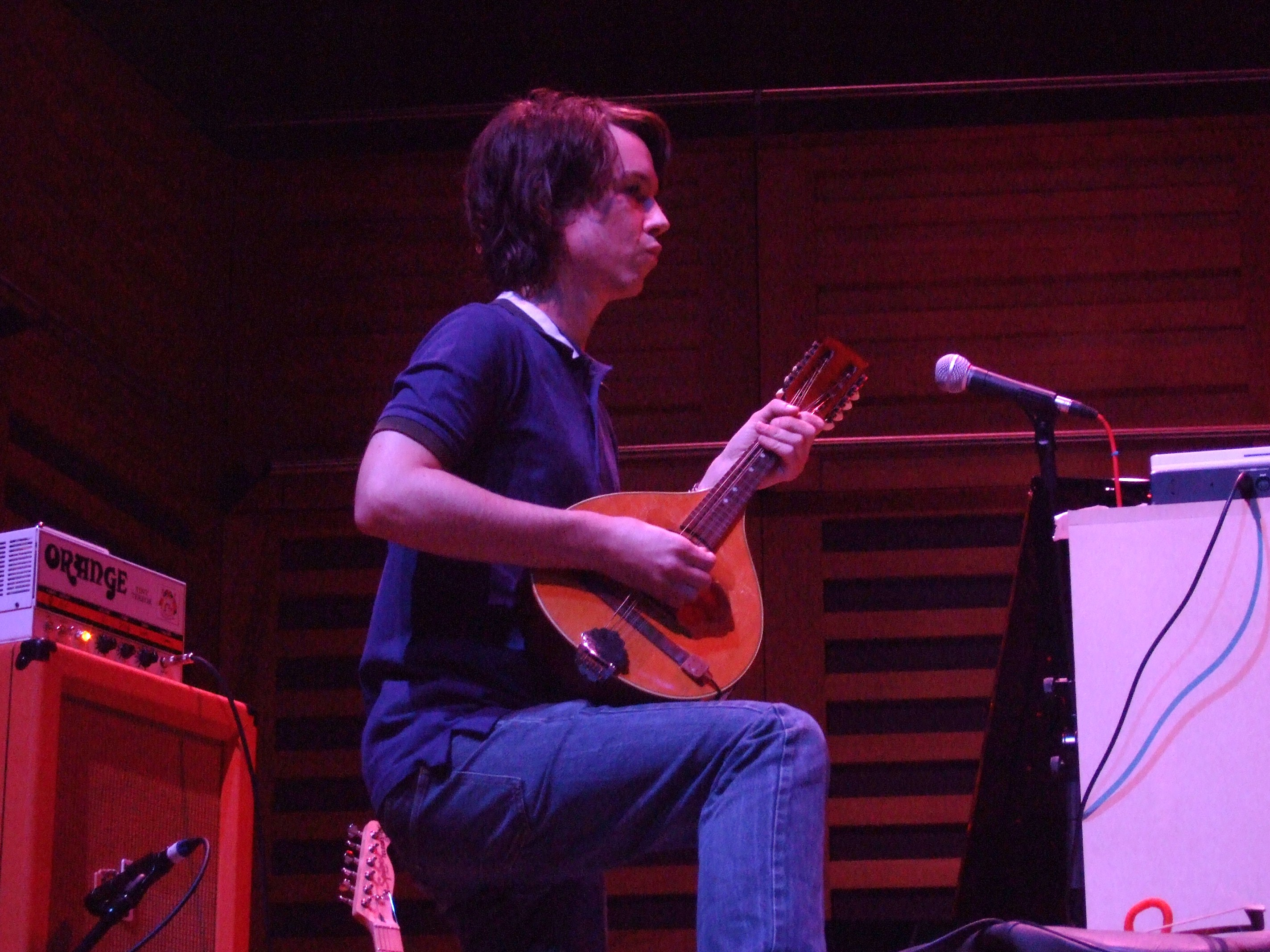 Multi-instrumentalist and composer, Leafcutter John